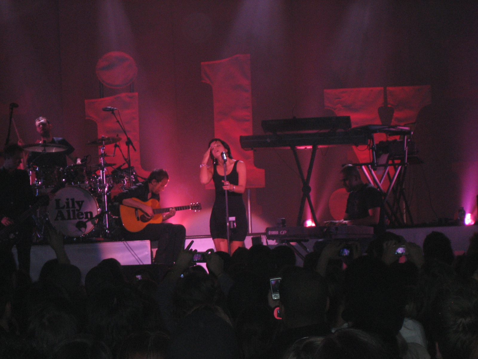 Lily Allen at the Sound Academy, Toronto